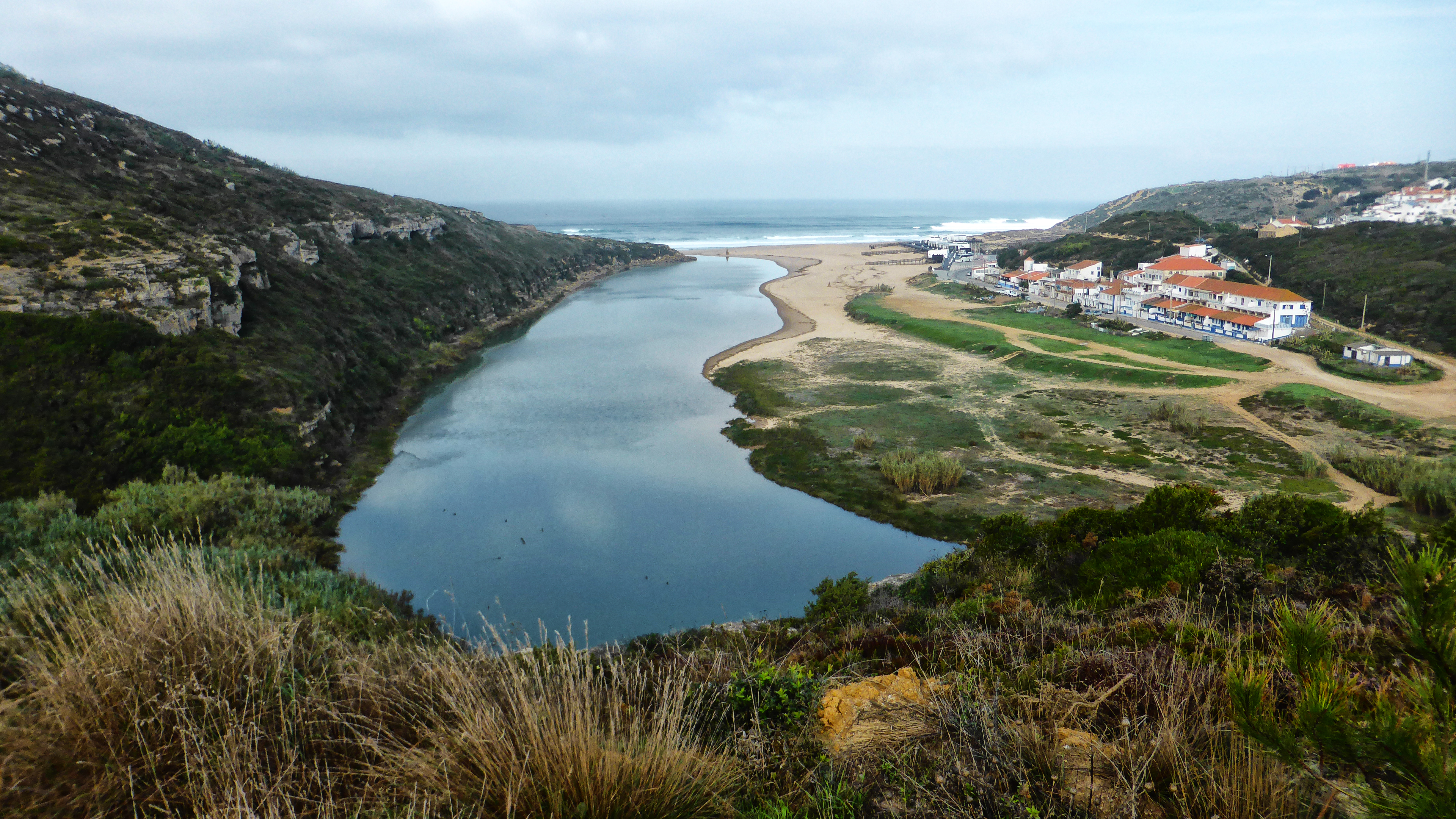 Lizandro river lagoon, 2015